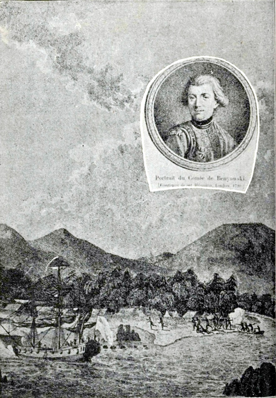 caption on book